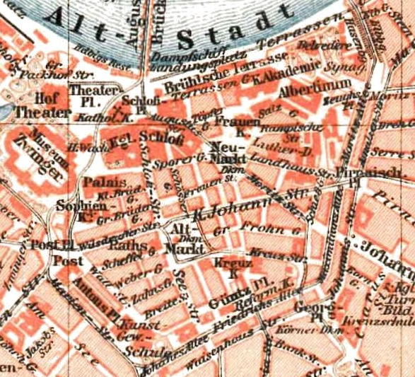 Neumarkt and Altmarkt in Dresden in 1895